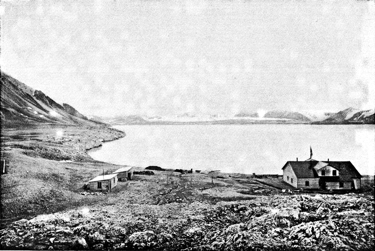 Treurenberg Bay, Svalbard. Today known as Sorgfjorden in Ny-Friesland, northern Spitsbergen.